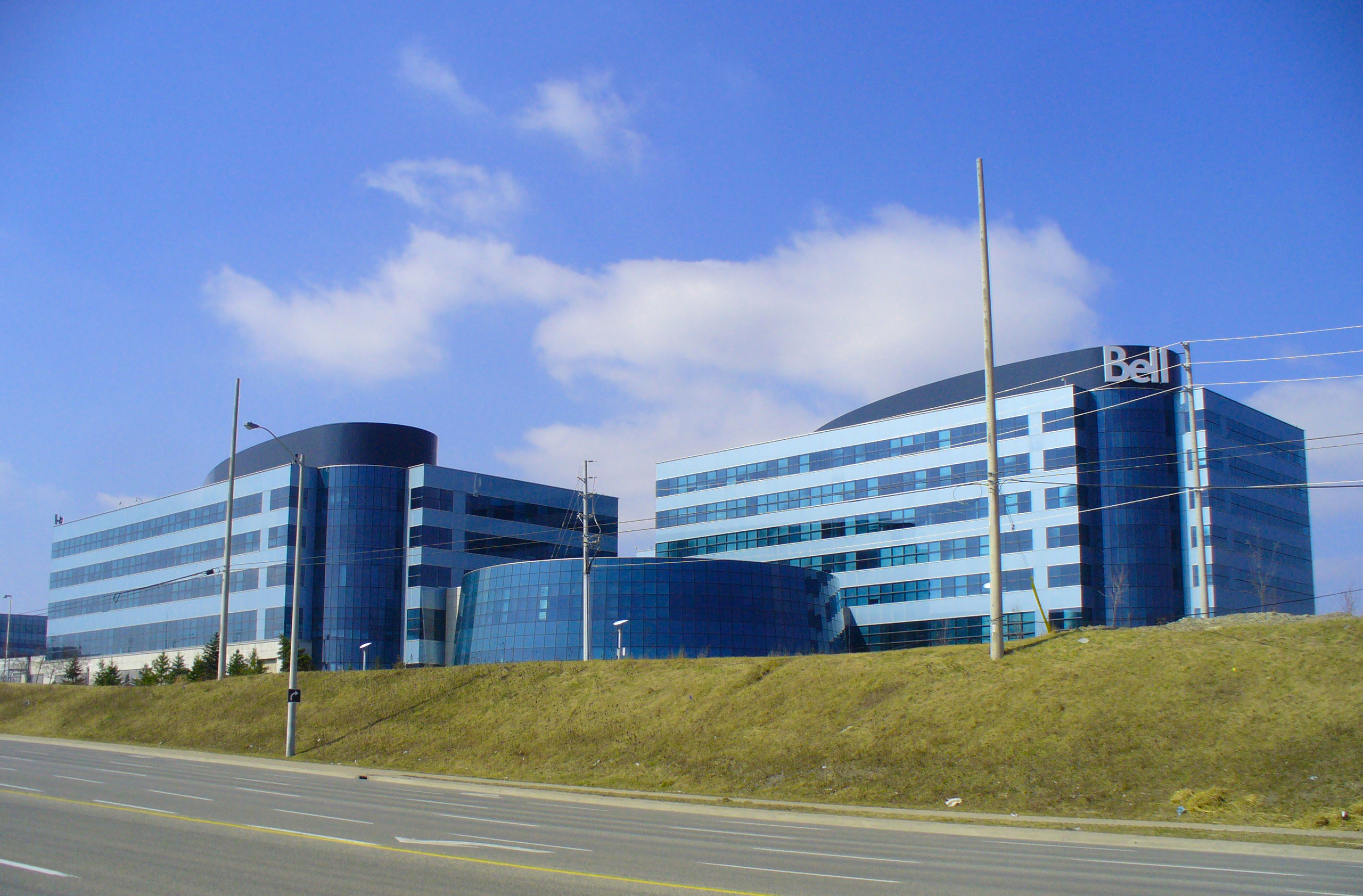 Bell Mobility HQ In Mississauga - 2012